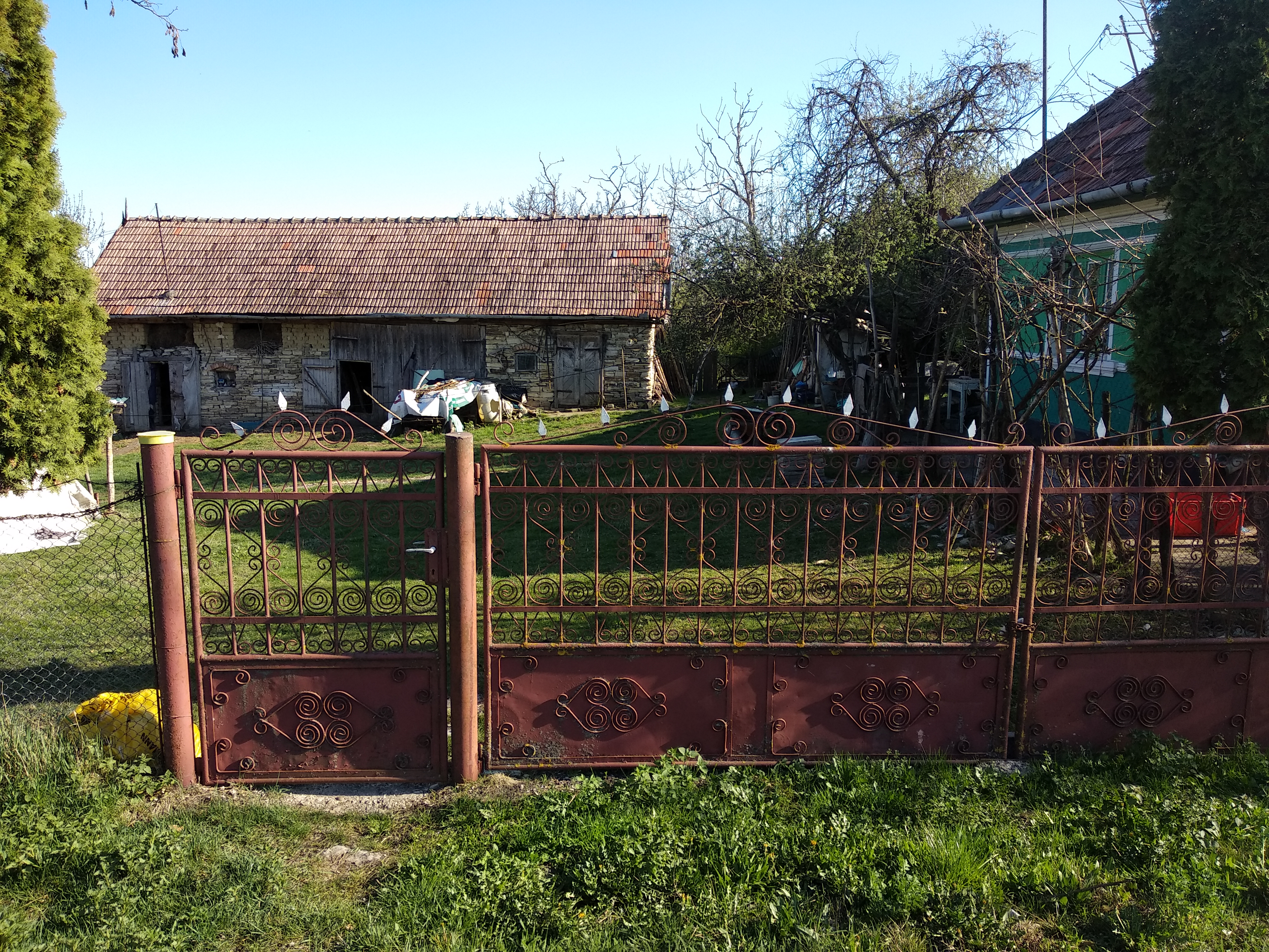 Hause